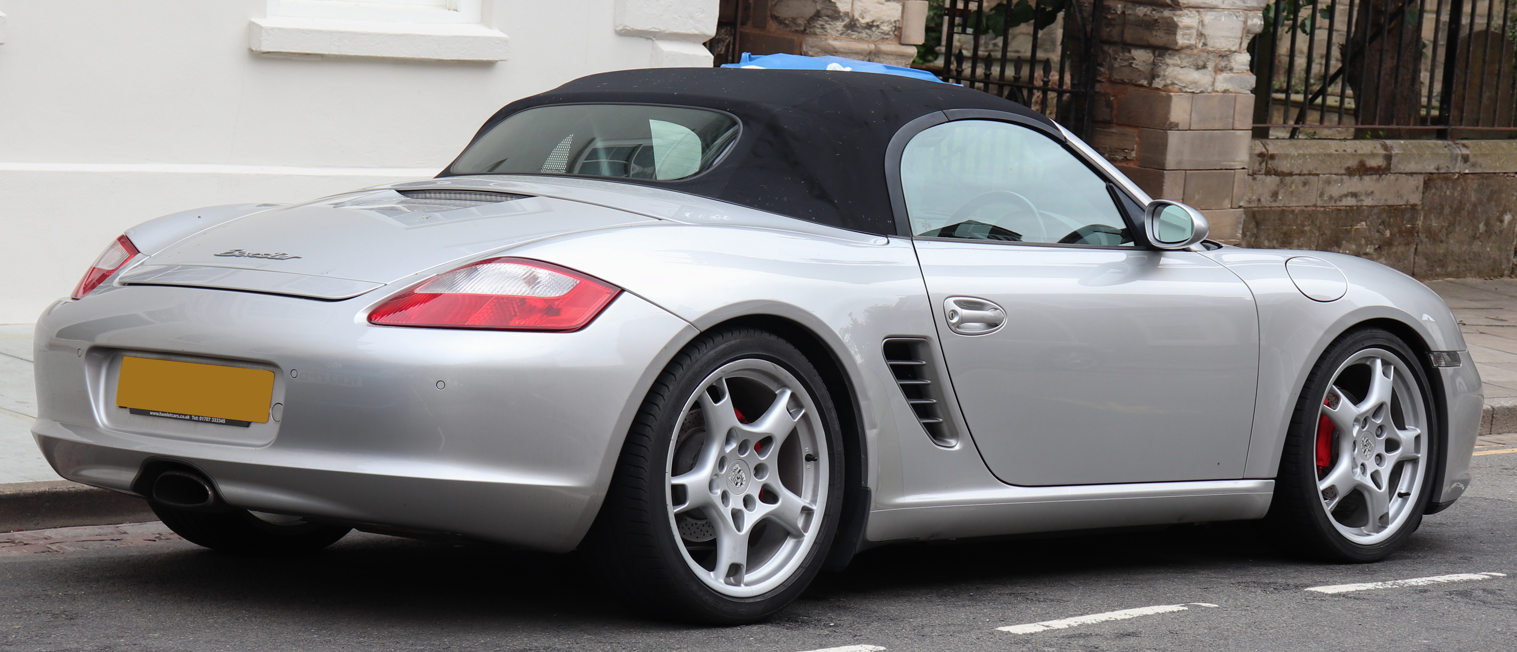 2006 Porsche Boxster 2.7 Rear Taken in Warwick